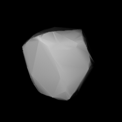 3D convex shape model of 2204 Lyyli, computed using light curve inversion techniques. J. Hanuš, J. Ďurech, M. Brož, B. D. Warner (June 2011). "A study of asteroid pole-latitude distribution based on an extended set of shape models derived by the lightcurve inversion method". Astronomy and Astrophysics 530: A134. ISSN 0004-6361. arXiv